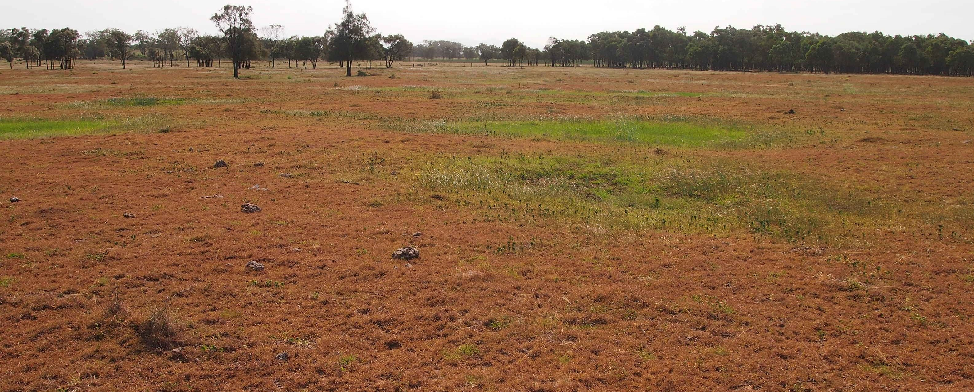 Gilgai